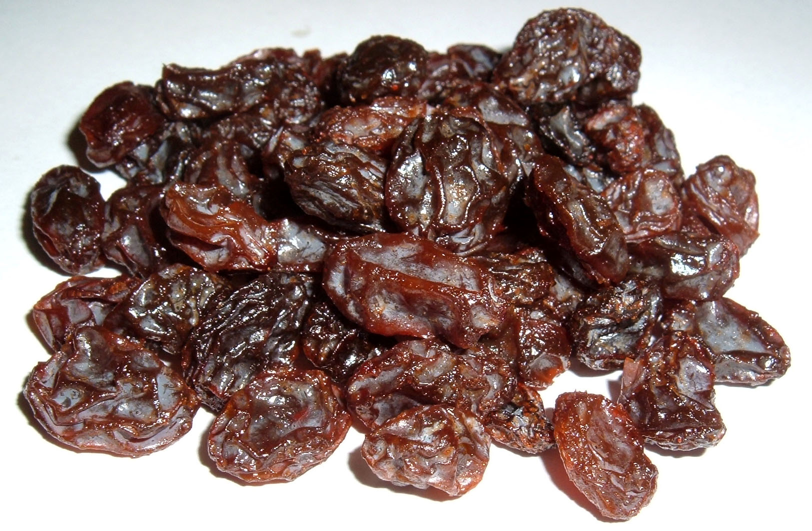 Raisins. Publix brand raisins "sweet sun-dried".